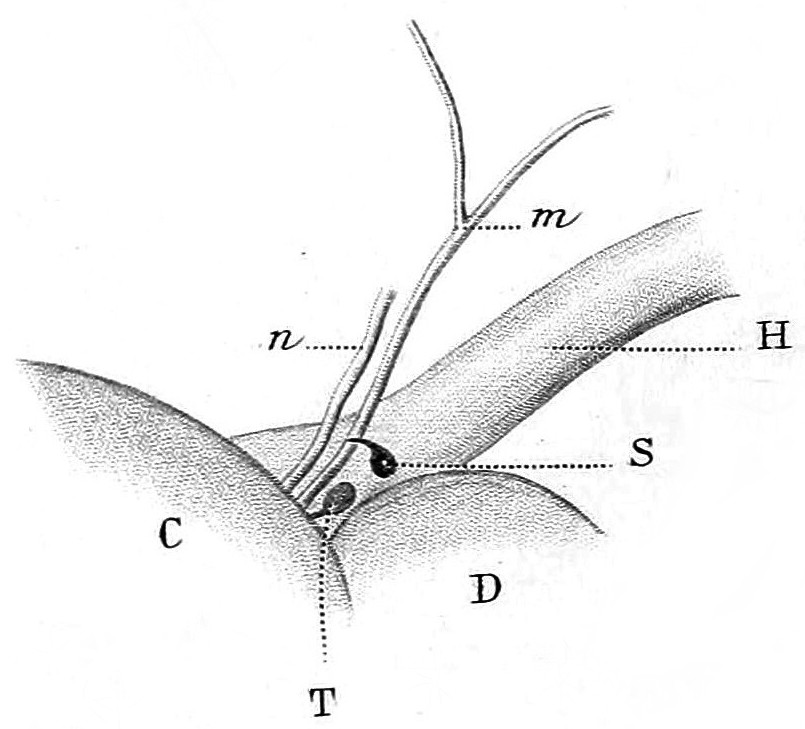 Glaucus atlanticus dissection's drawing